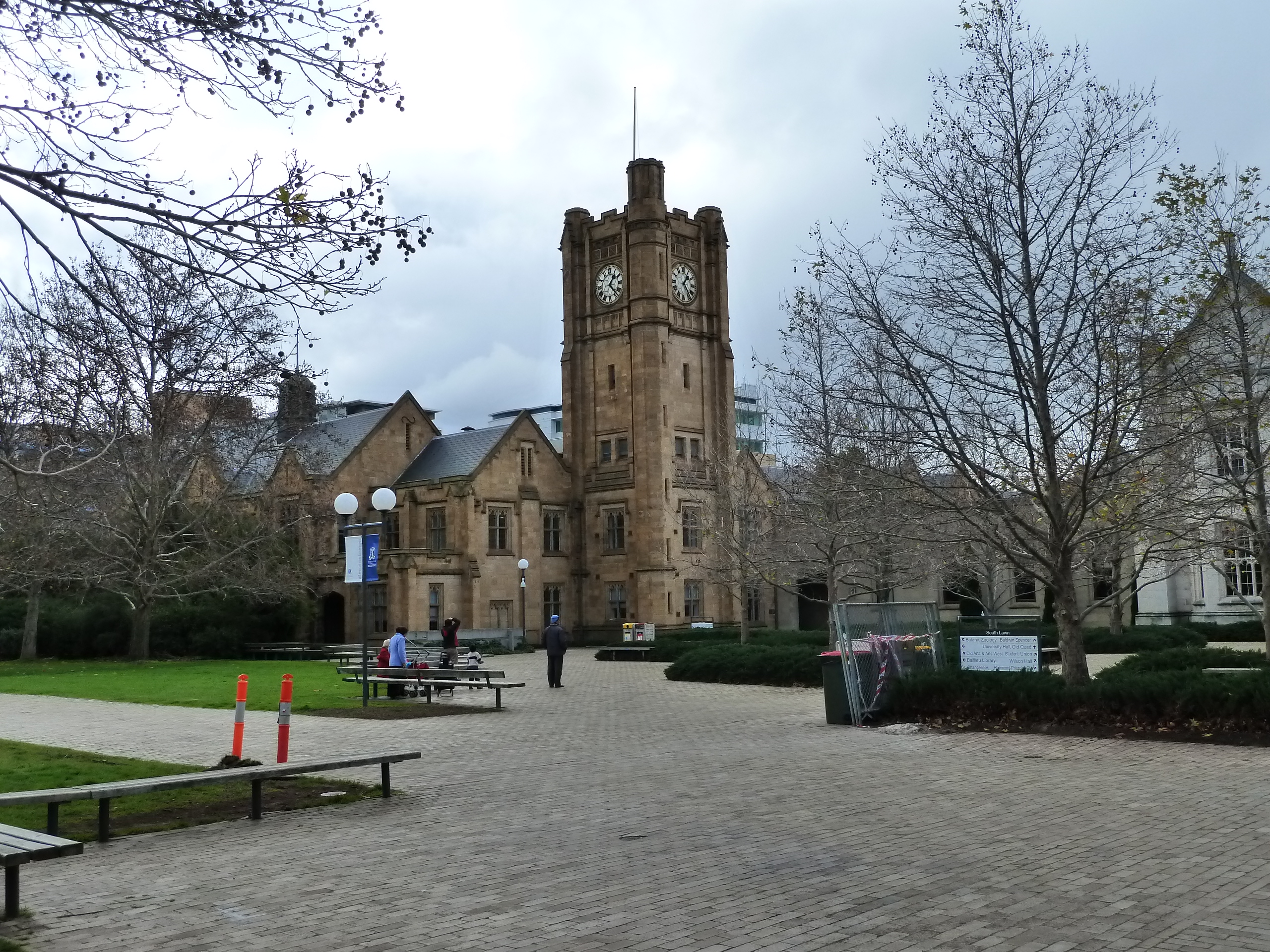 the photo of my university took by myself